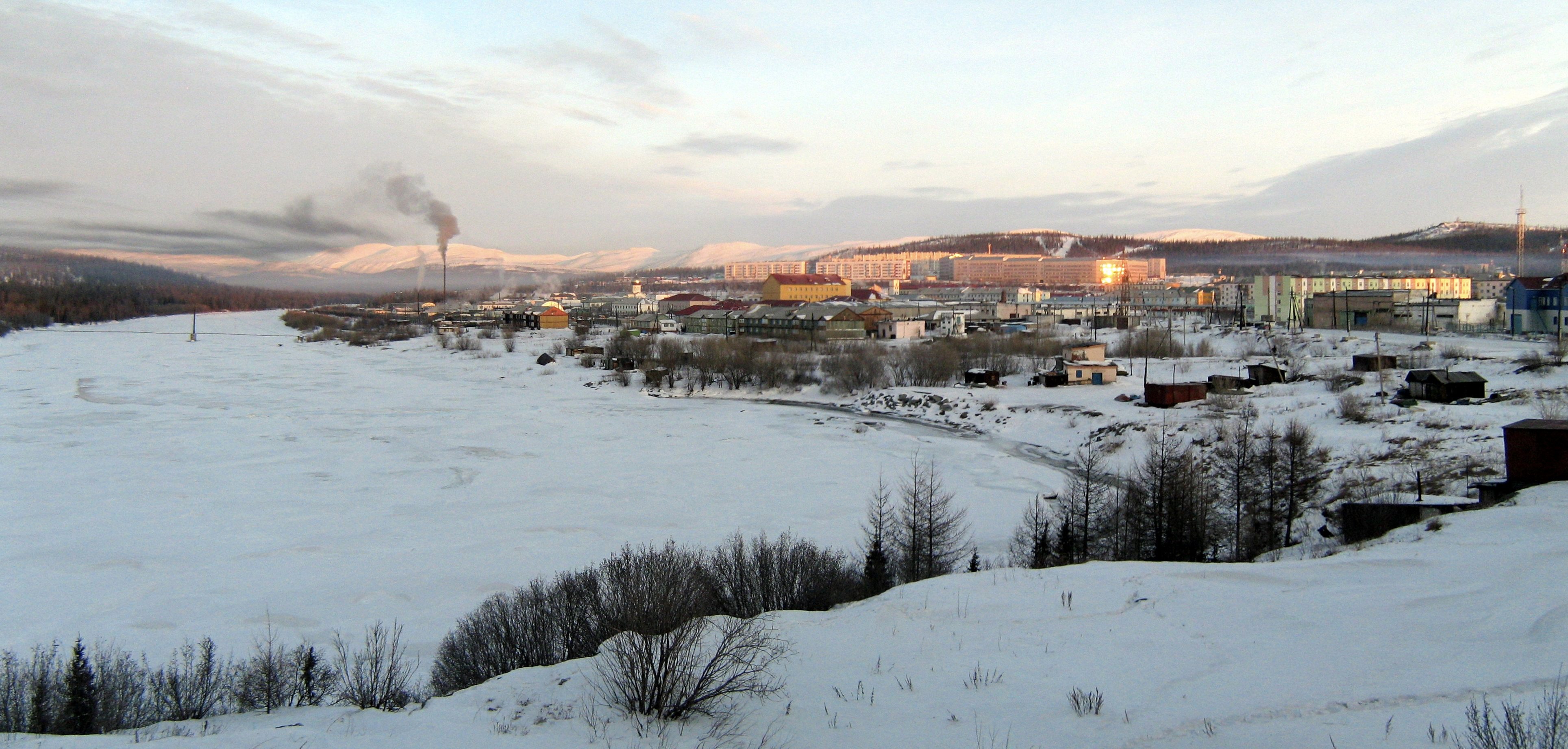 Urban-type settlement of Kharp.